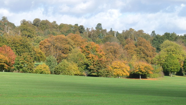 Addington Park Autumn colours approaching their best.